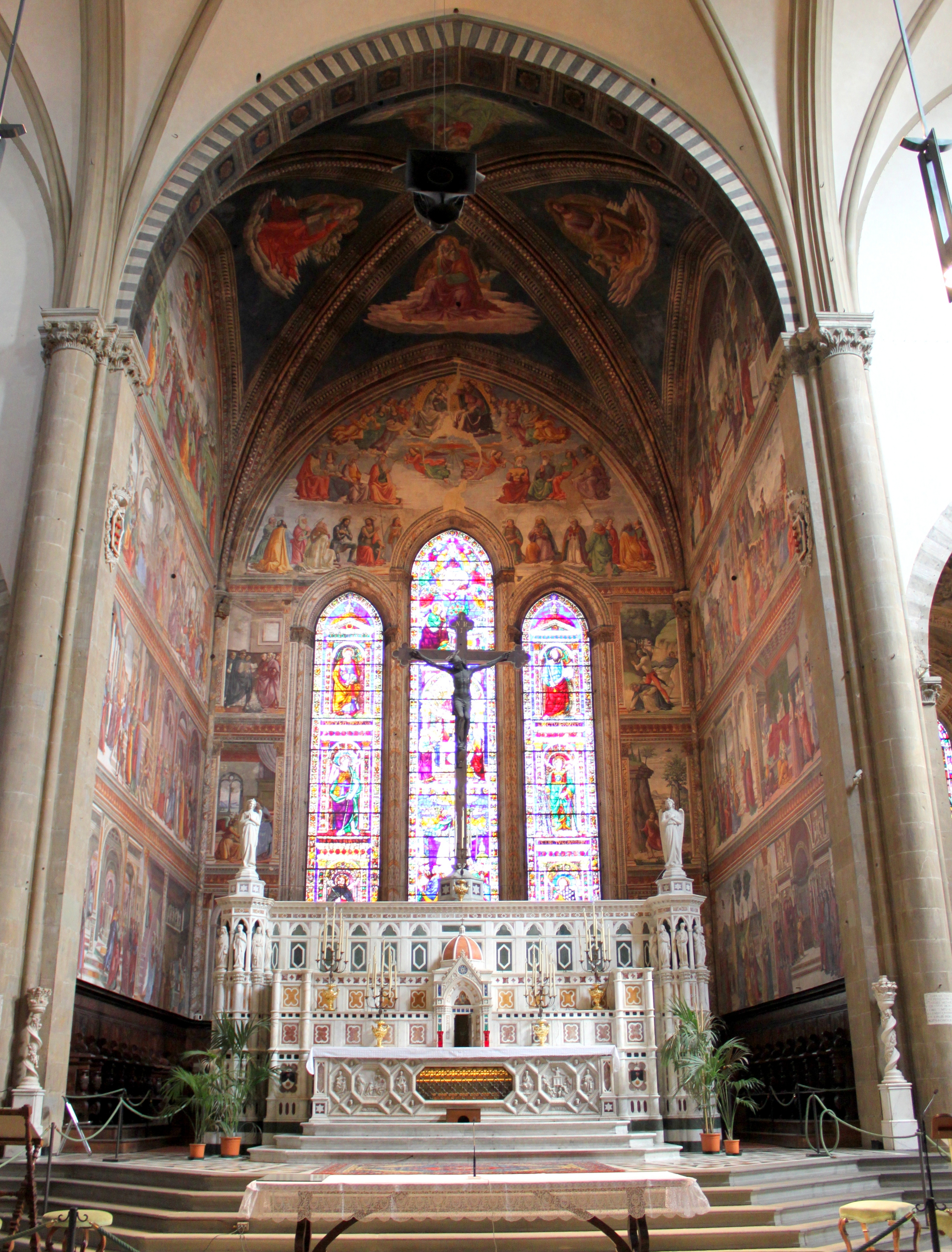 View of the main chapel: Domenico Ghirlandaio and workshop, Tornabuoni chapel, 1486–1490, fresco cycle, Santa Maria Novella, Florence